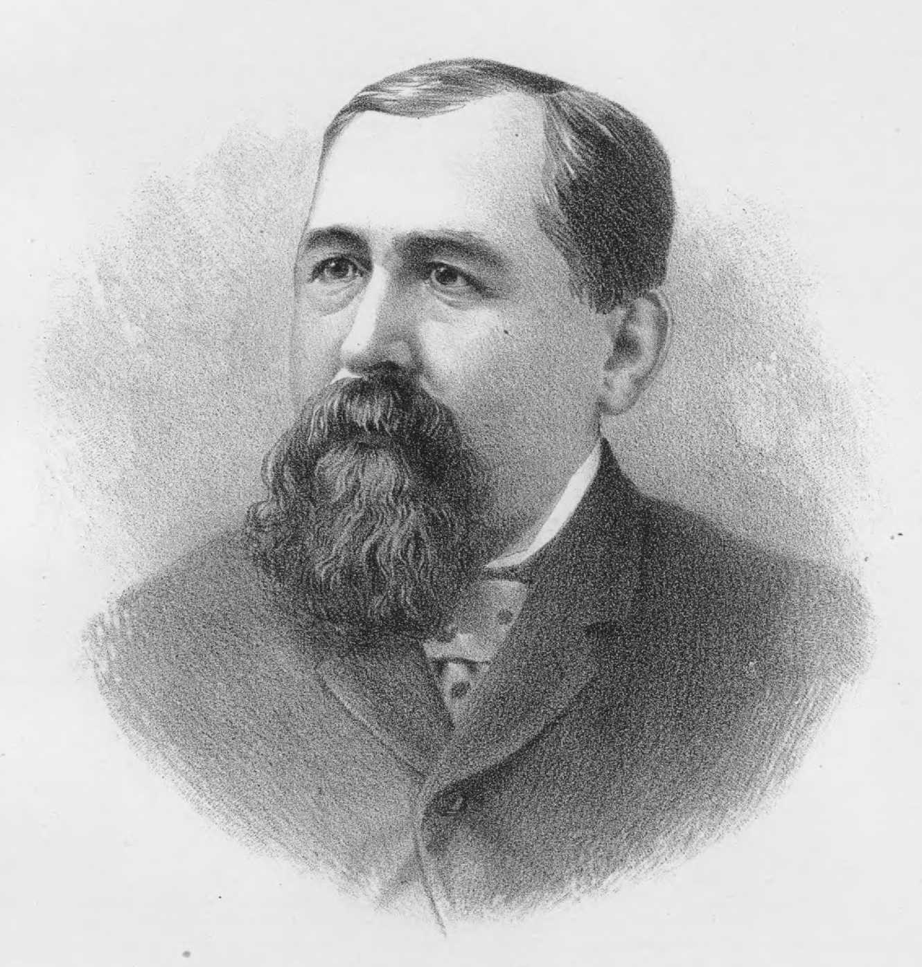 Original caption: “ Nelson Bennett, Tacoma, W. T. ”